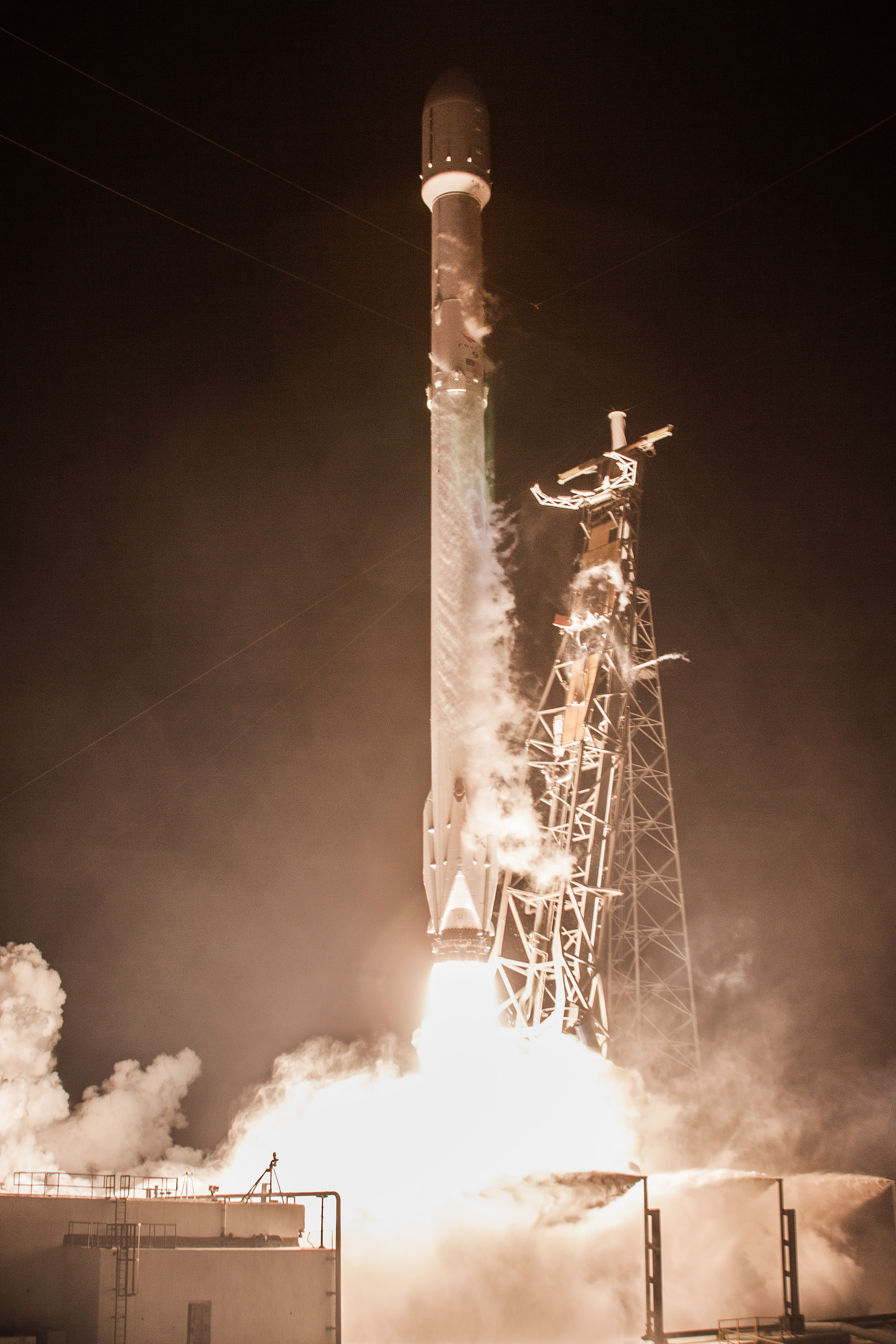 Launch of the Zuma mission on 7 January 2018.